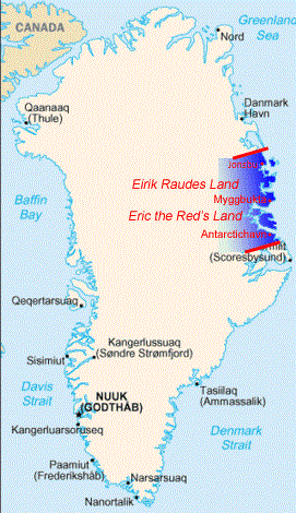 Extension of the part of Greenland occupied by Norway in 1931 - 1933.